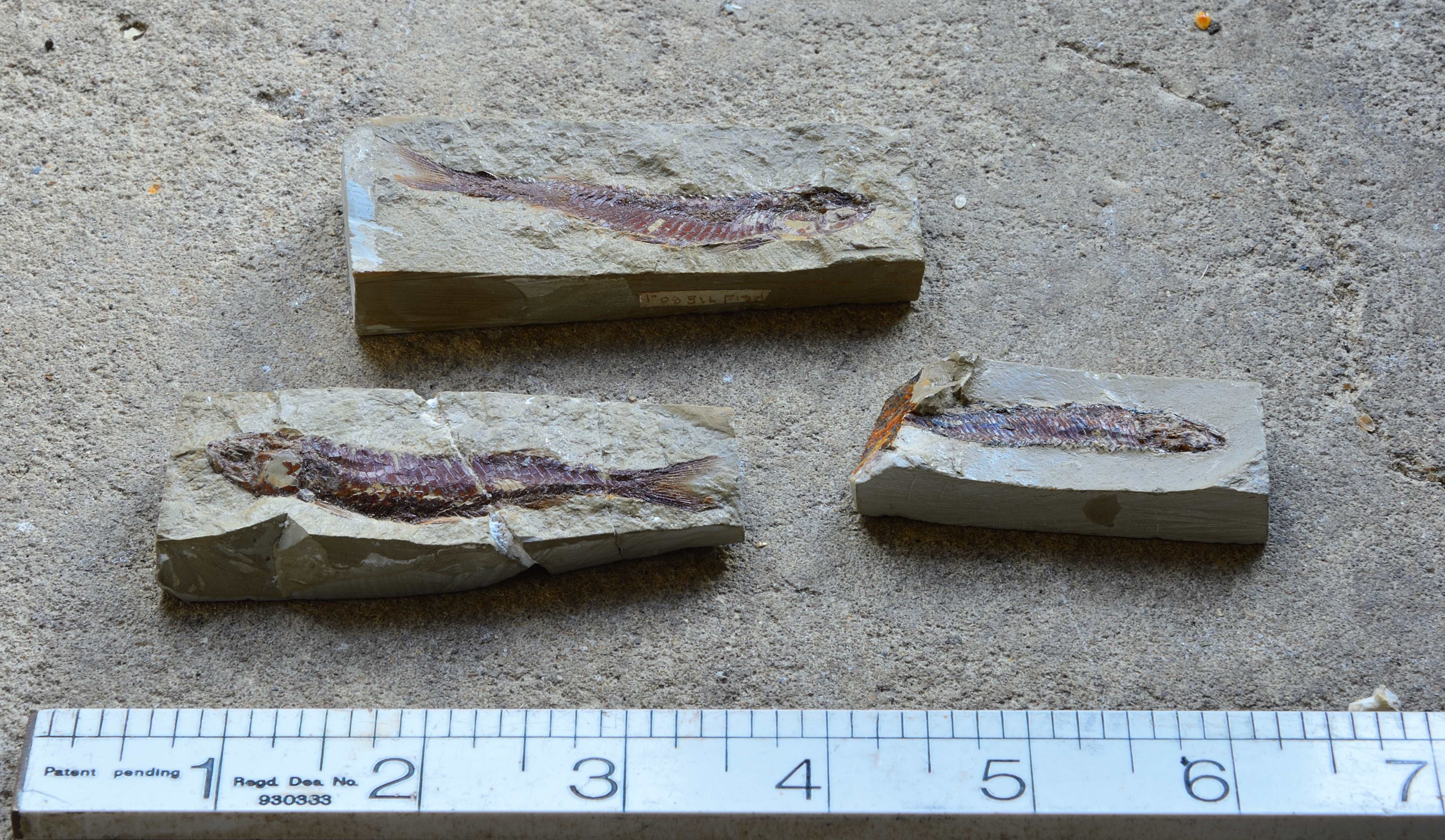 Small fish from the Purbeck beds in Teffont Evias quarry